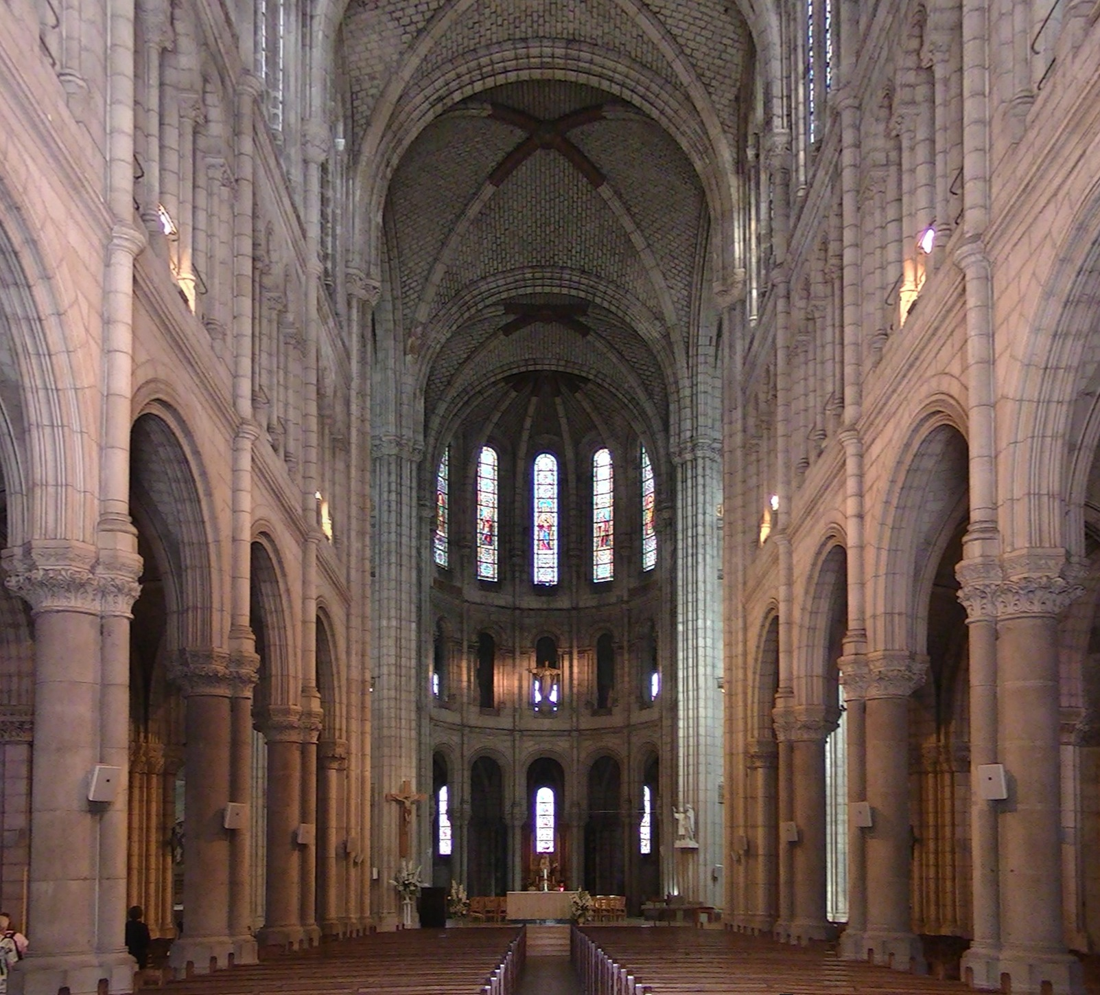 Nave and apse of Basilique Saint-Donatien, Nantes